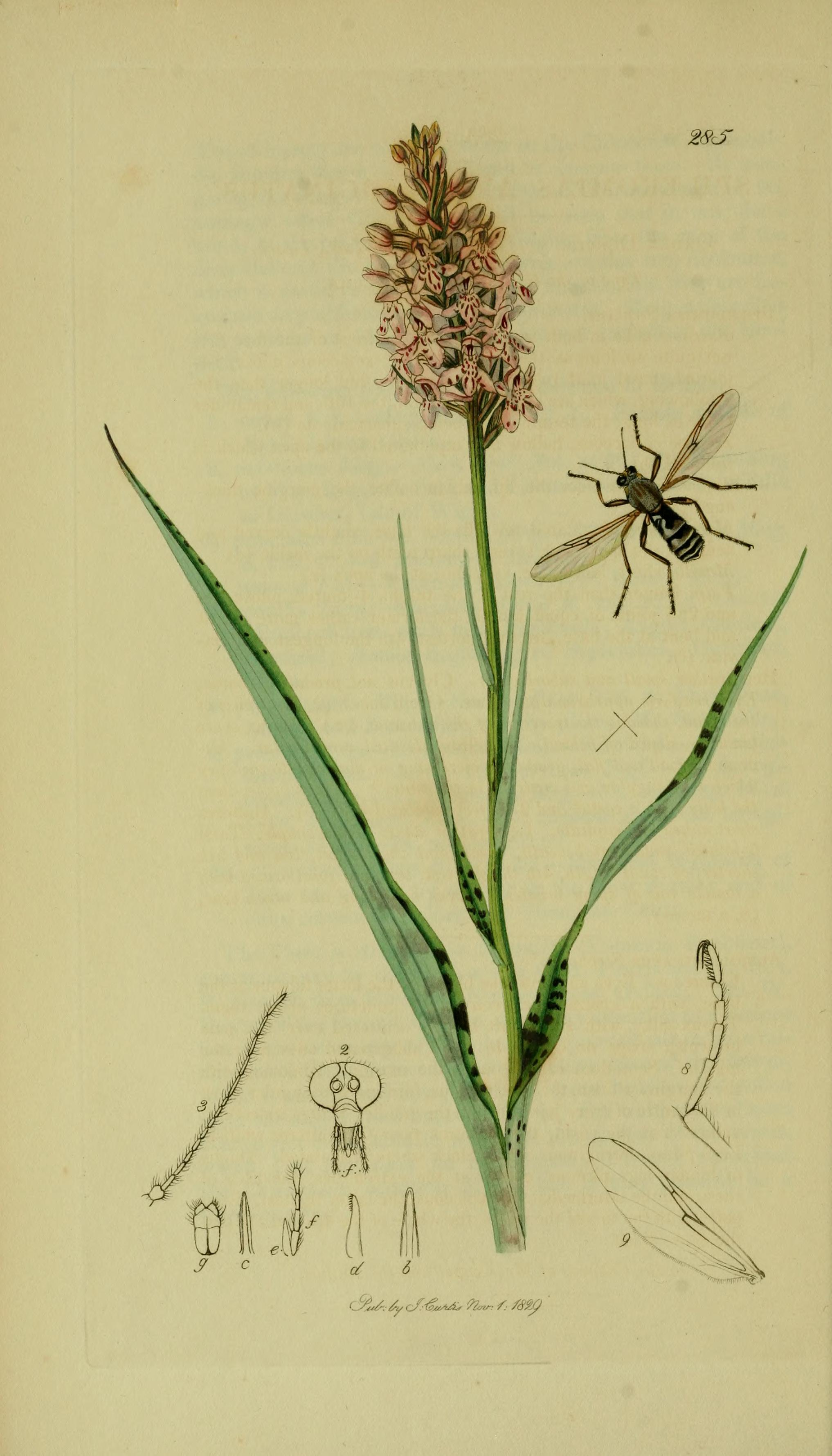 John Curtis British Entomology (1824-1840) Folio 285 Diptera: Sphaeromias albomarginatus = Sphaeromias fasciatus (White-bordered Sphaeromias).The plant is Dactylorhiza maculata (Spotted Orchis)